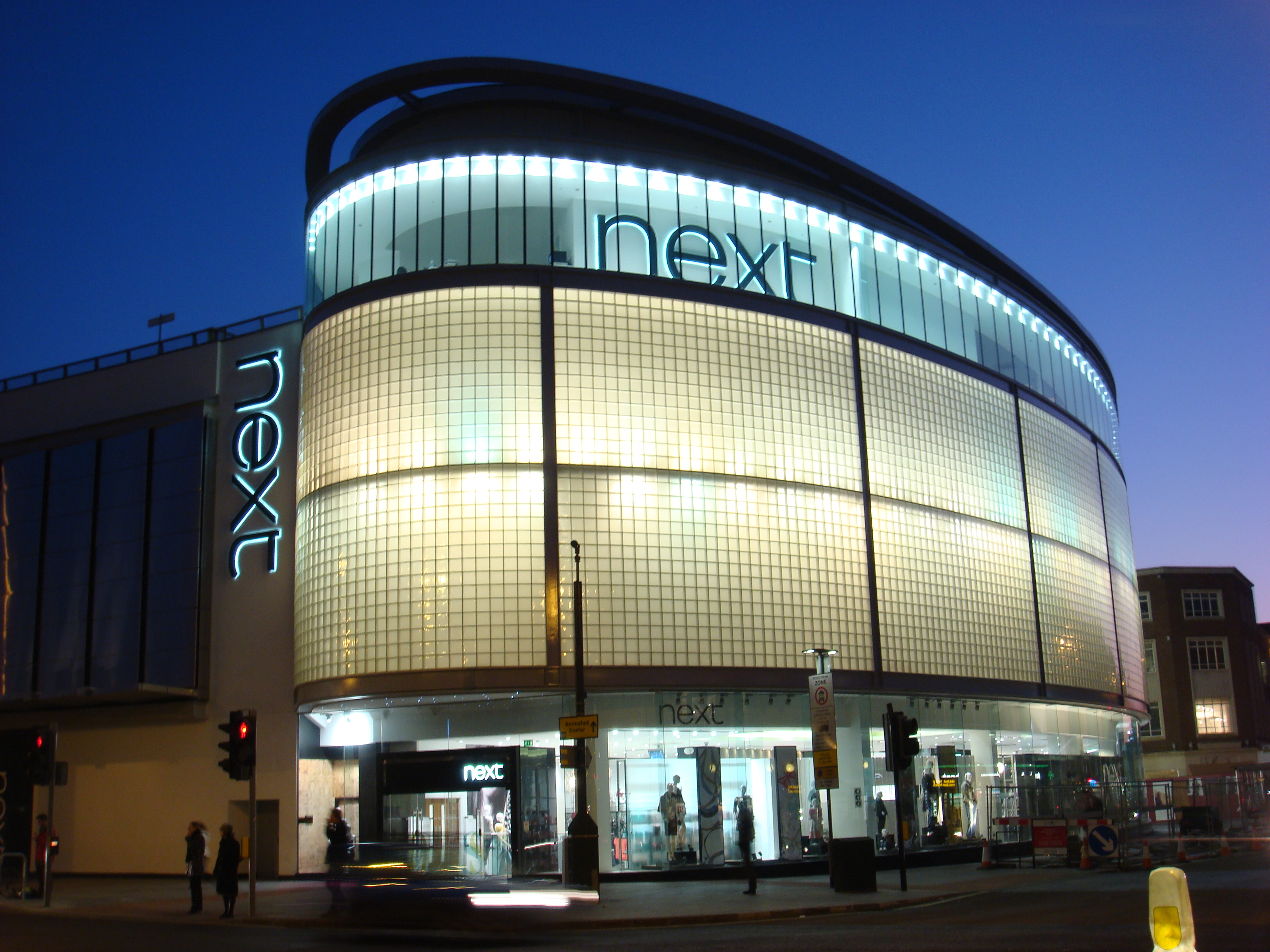 Next at the top of Exeter High street